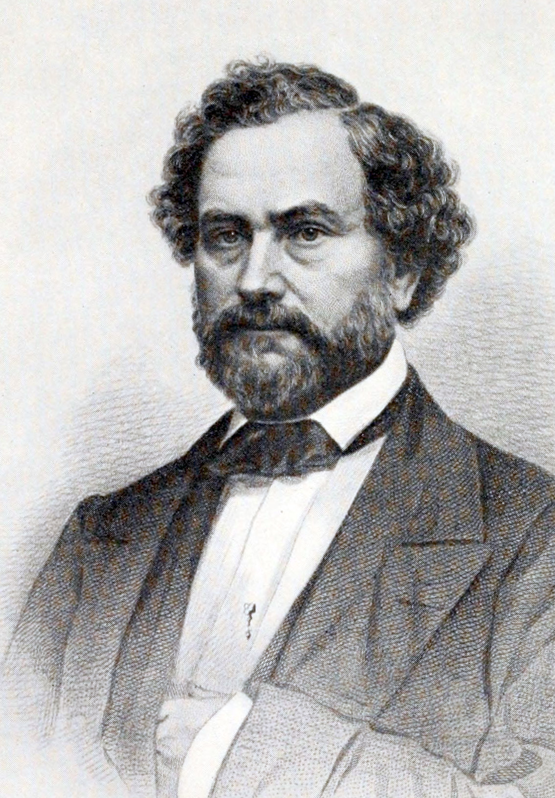 Samuel Colt, founder of the firearms manufacturer Colt